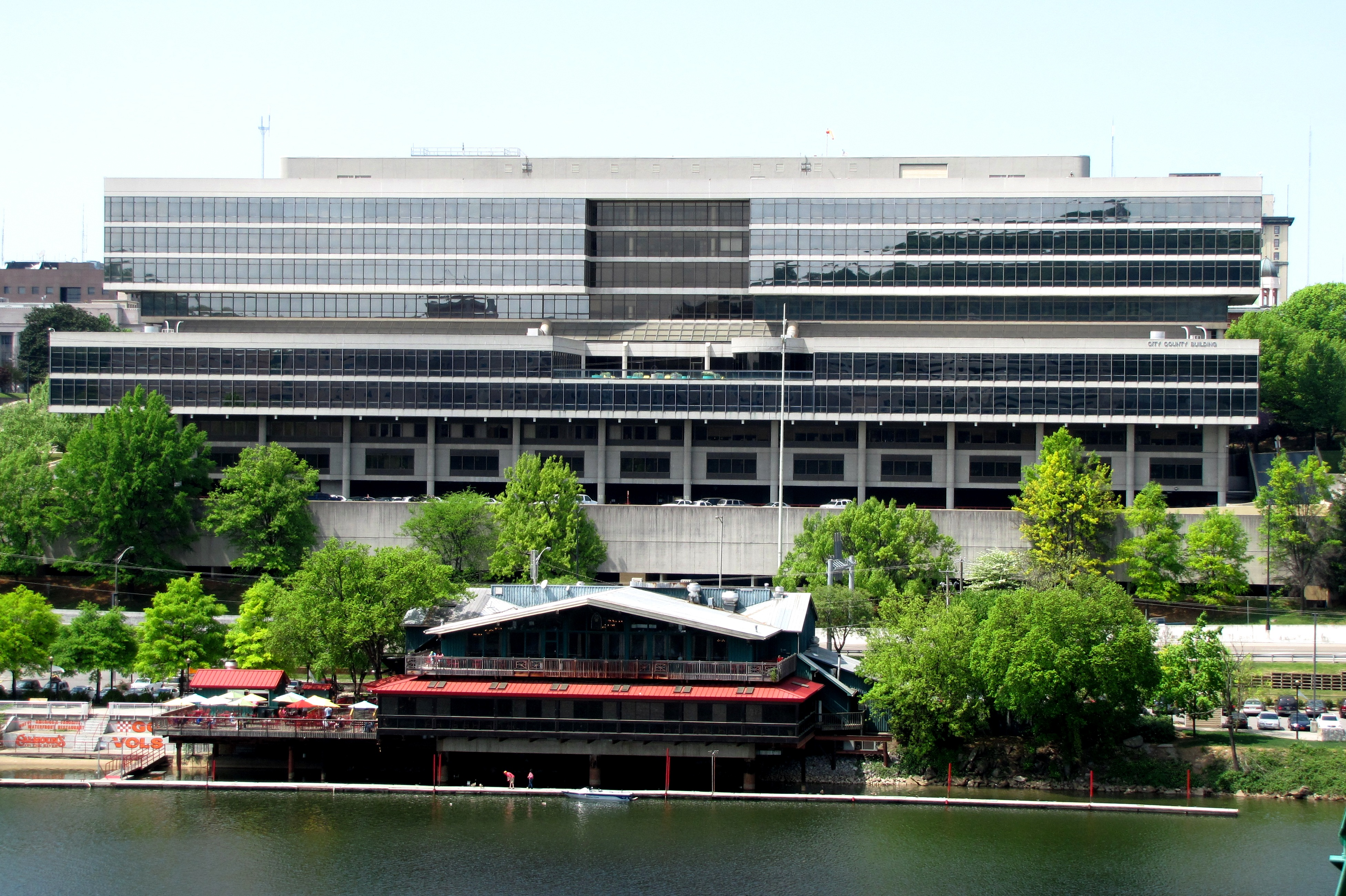 The Knoxville City-County Building, overlooking the Tennessee River in Knoxville, Tennessee, USA. This view is from the Gay Street Bridge, looking north. Calhoun's (a restaurant) is below.